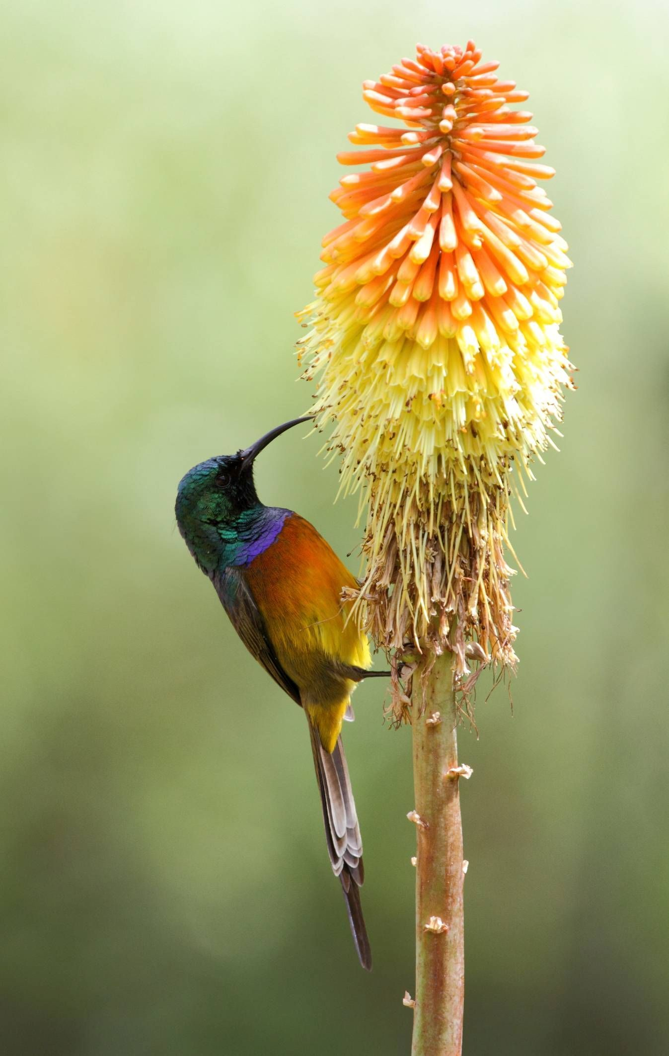 Male Orange-breasted Sunbird Anthobaphes violacea on a Kniphofia flower. Kirstenbosh Botanical Garden, Cape Town, South Africa.